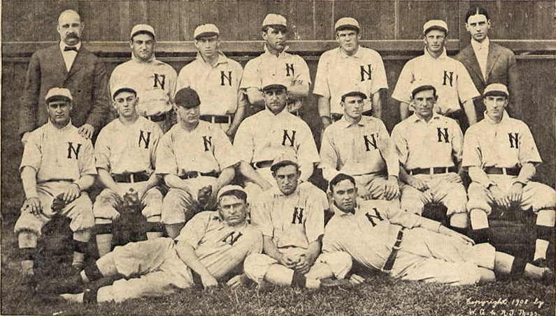 A postcard of the 1908 Nashville Vols, a minor league baseball team from Nashville, Tennessee